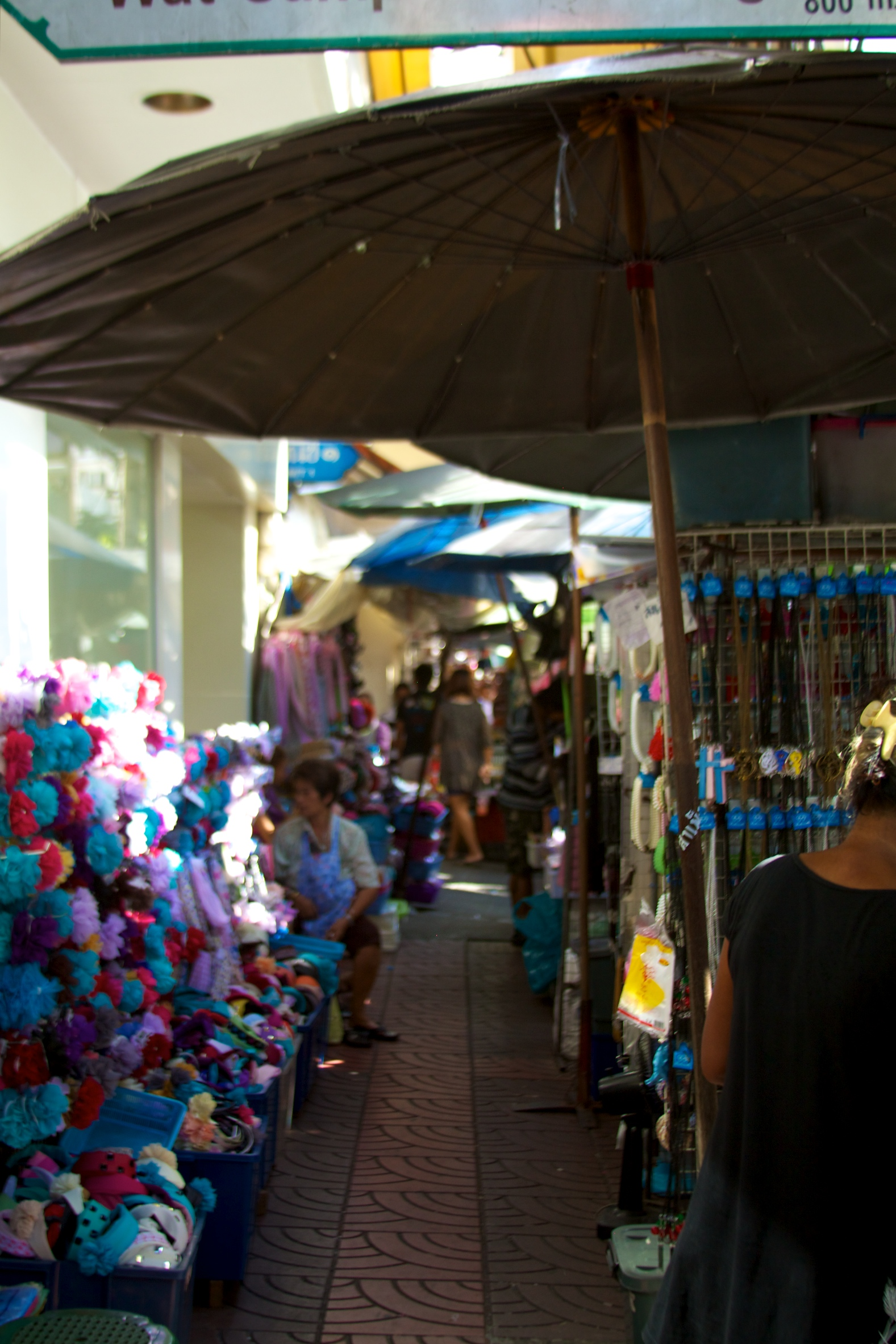 Daylight seems to hardly reach to street level of Sampeng Lane. The heart of Chinatown, Sampeng Lane (also Soi Wanit 1) seems not so much a street as a long market stretching dozens of blocks. This area was filled with plastic goods, accessories, toys and baubles.